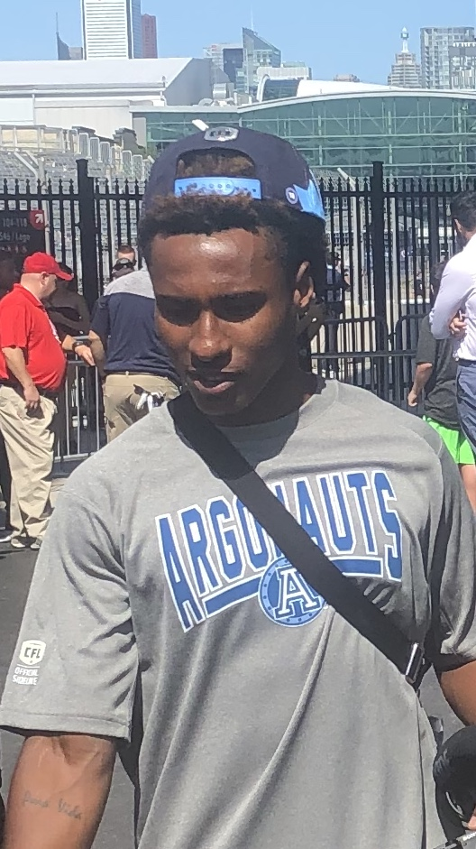 Donald De La Haye, kicker for the Toronto Argonauts.